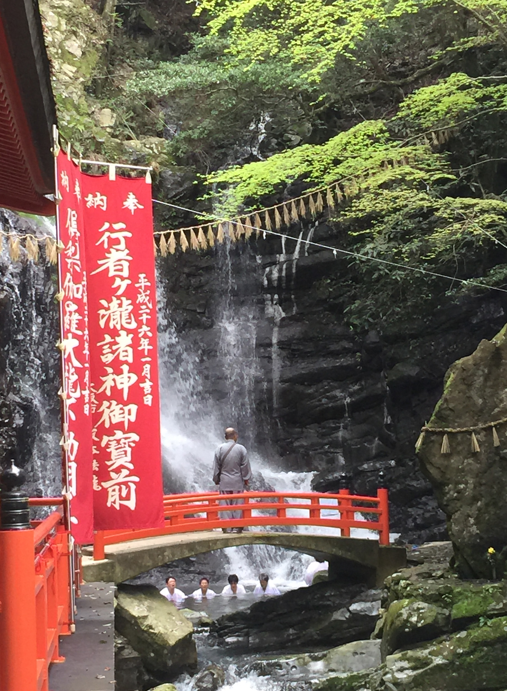 Ascetic practice of Shugenja (mountain ascetic hermits) under supervision of a Buddhist monk (Shingon-shū) in the Shippōryū-Temple (Shugendōkaikan-Shiryōkan, Shippōryū-ji, Inunaki-san, Prefecture Osaka)